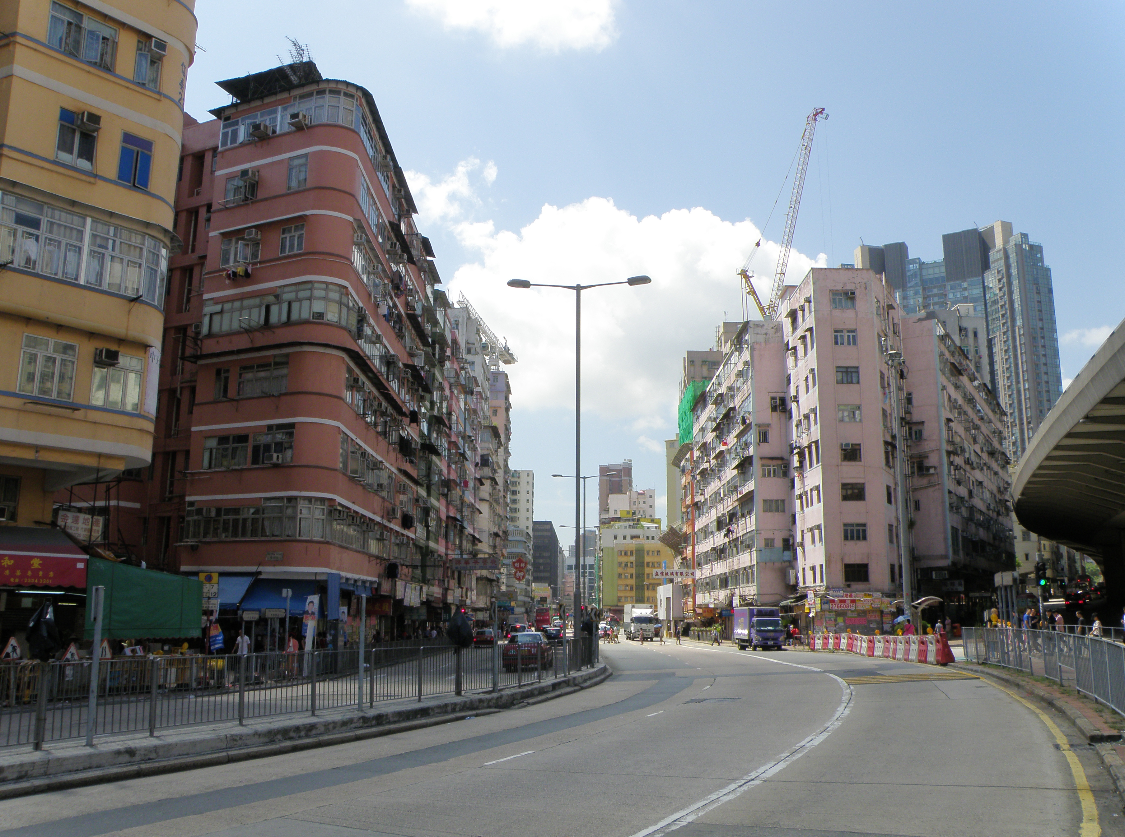 Ma Tau Wai Road in Ma Tau Wai, Hong Kong.